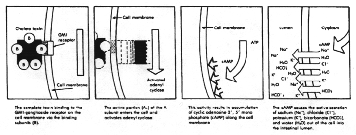 Toxin